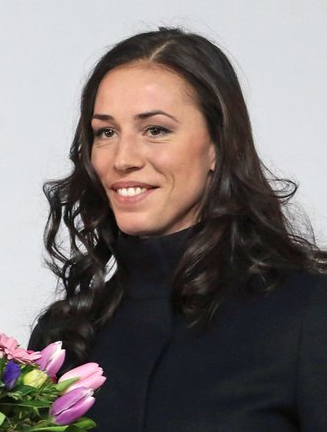 The Prime Minister of Russia Dmitry Medvedev with speed skating bronze medalist at the XXII Olympic Games Yekaterina Lobysheva.